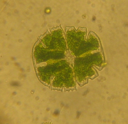 Micrasterias. Humotrophic lake phytoplankton.